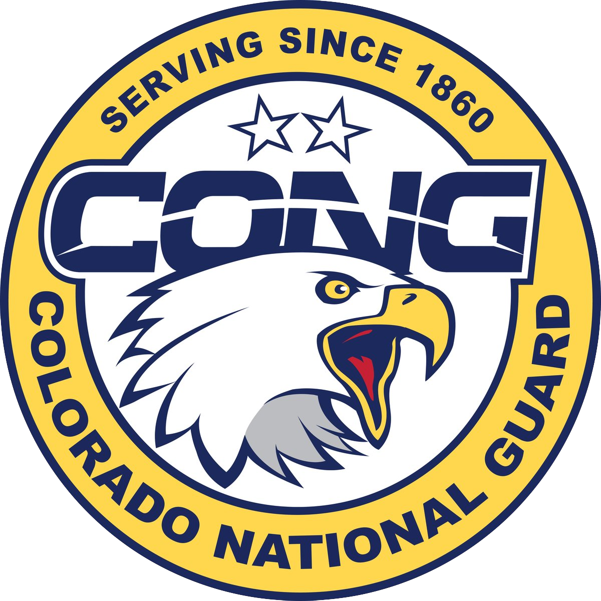 Logo of the Colorado National Guard, a component of the United States National Guard.